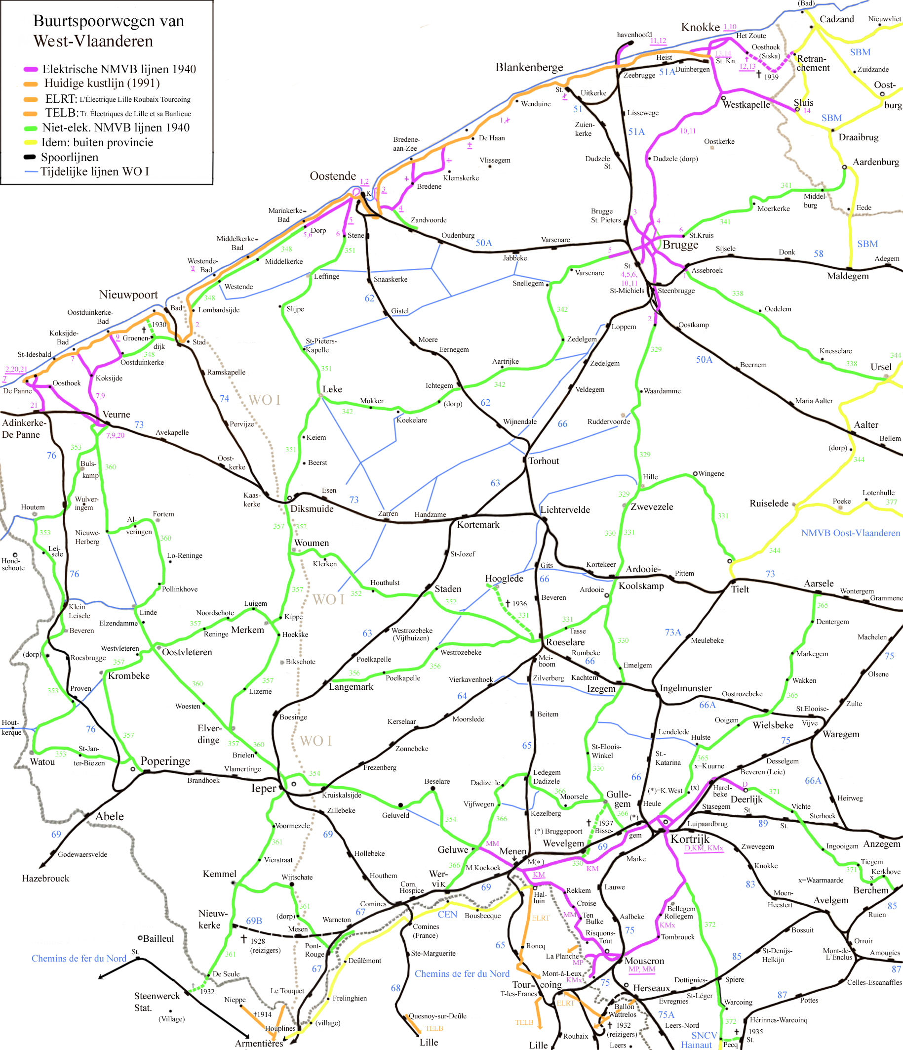 Map off the vicinal railways in the province of West Flandres. Purple lines = electrified lines in 1950 Brown lines = Coastline in service Green lines = non-electrified lines in 1940 Yellow lines = idem, but outside the province Blue lines = Temporary lines during the first world war Black lines = Railways (normal gauge)